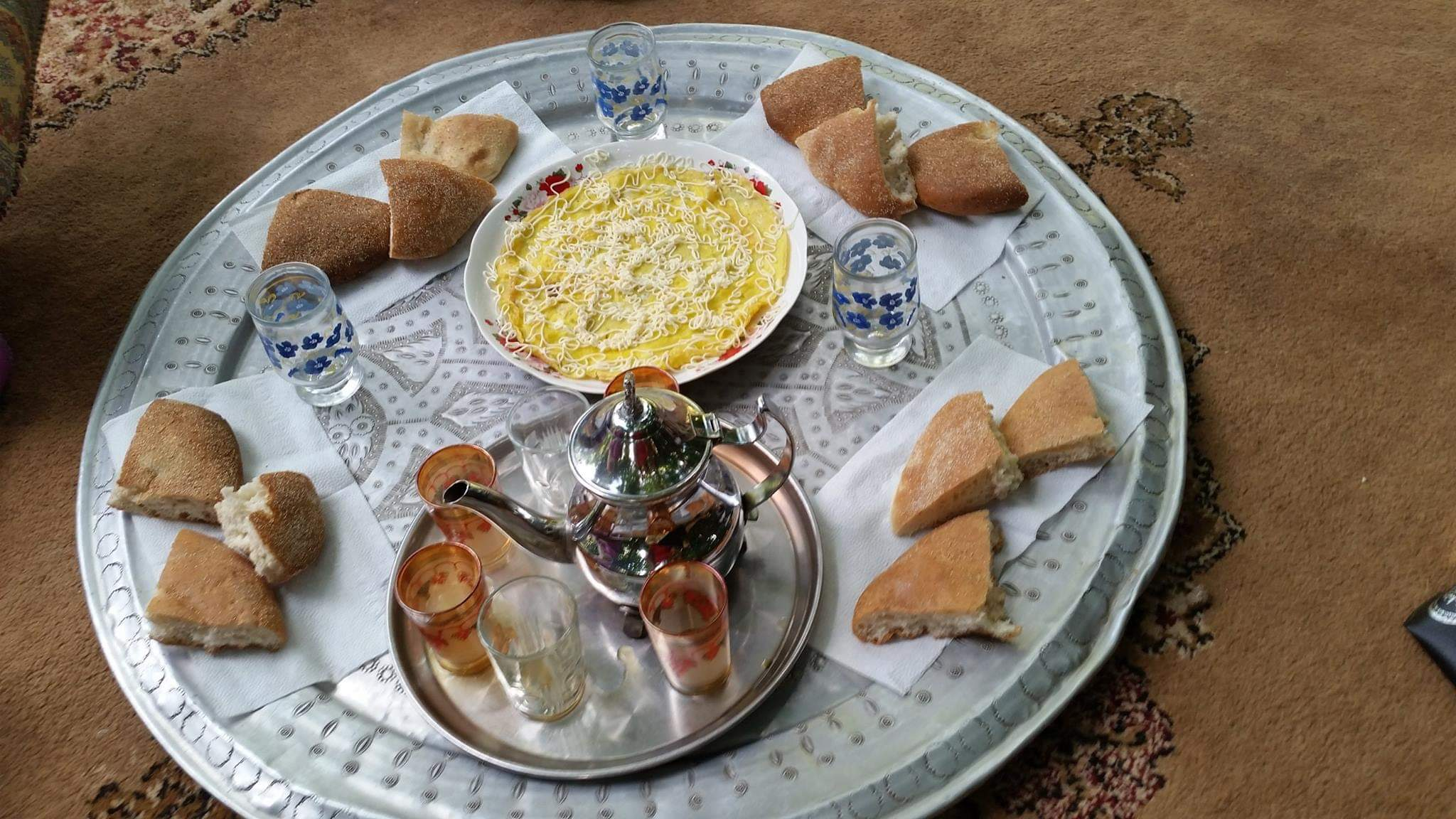 This is an image with the theme "Africa on the Move or Transport" from: Morocco